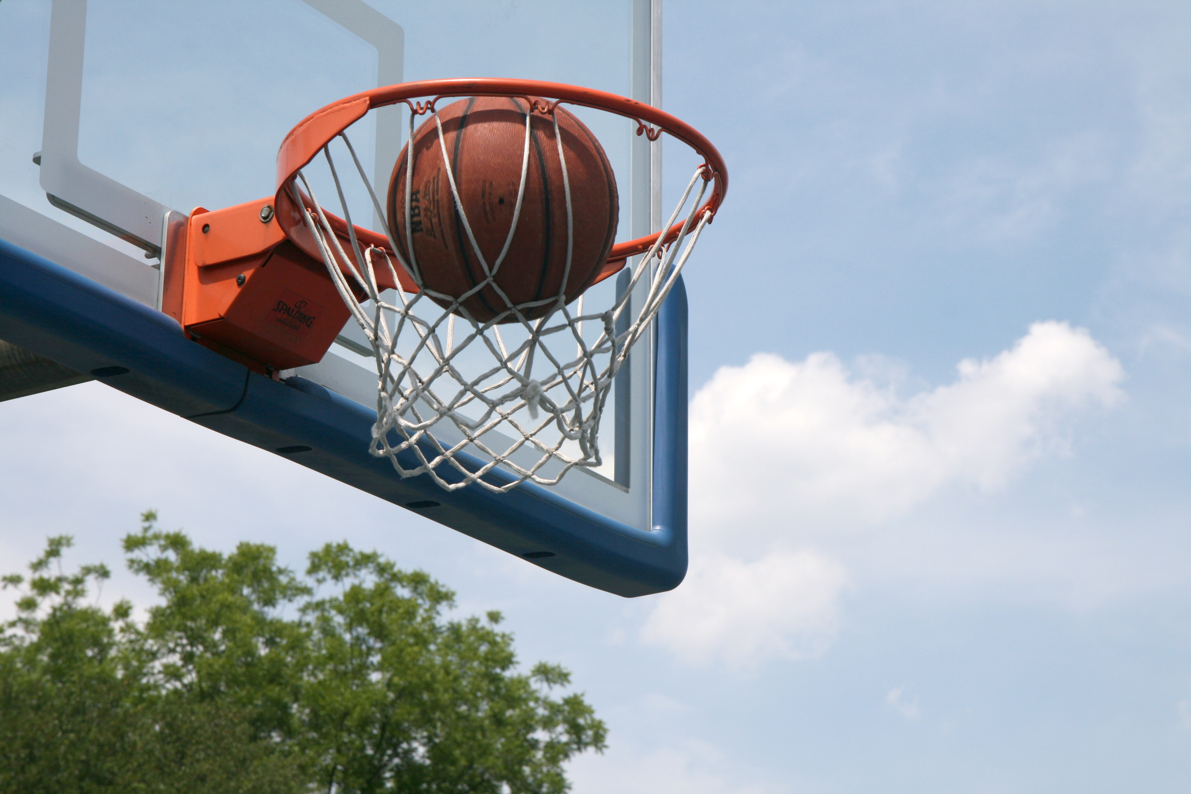 A basketball ball about to fall through the hoop at a court on Anderson Street next to the Devil's Bistro in Durham, North Carolina.